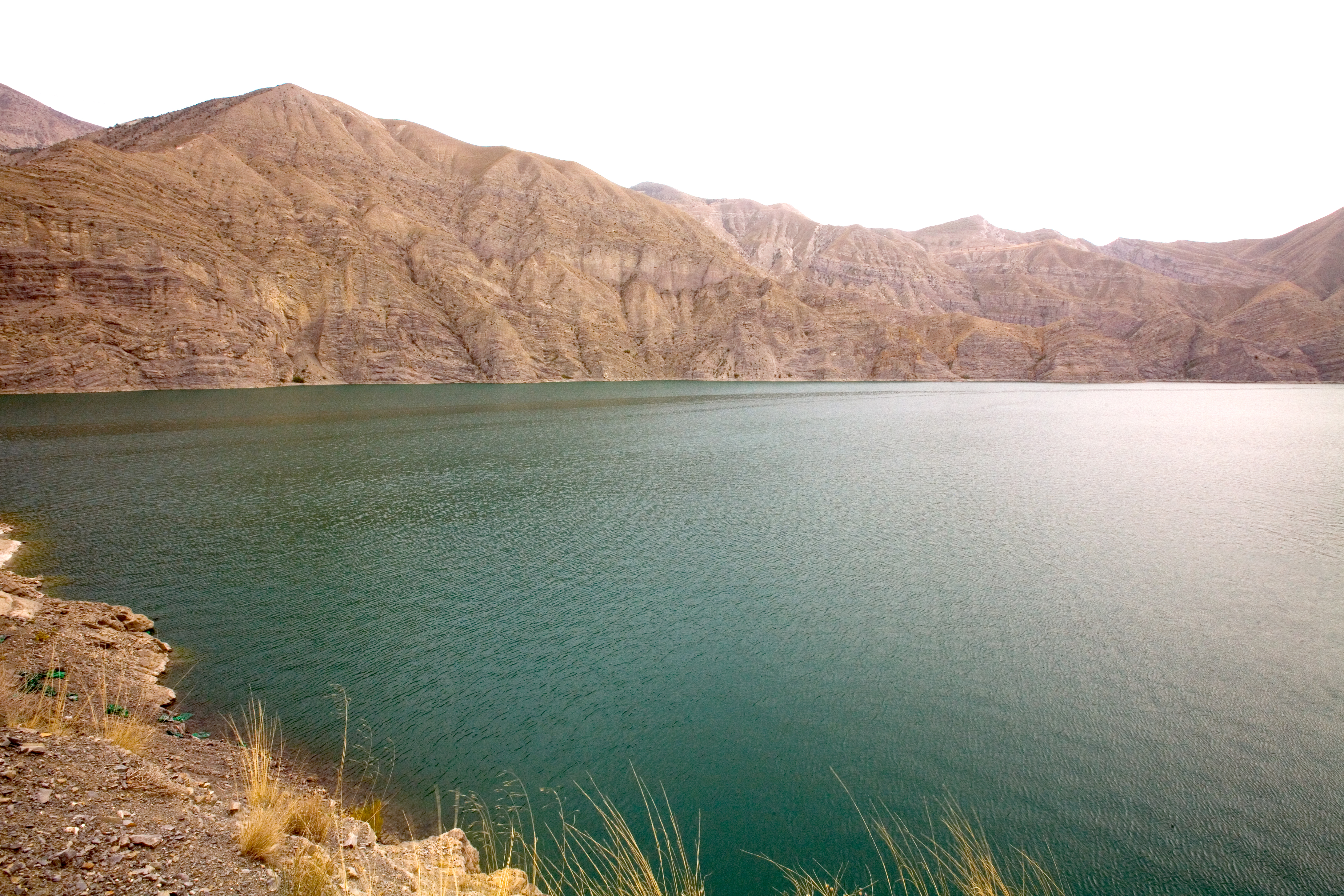 Tortum Dam Lake